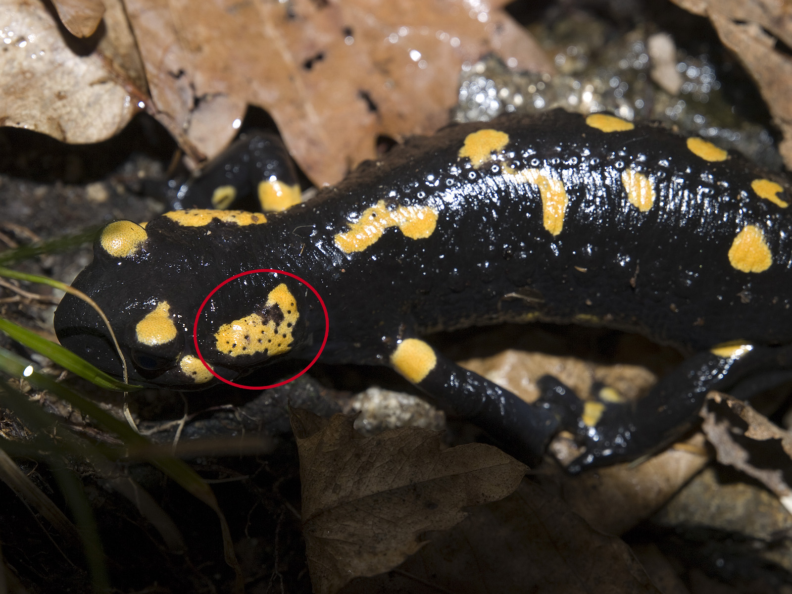 Salamandra Salamandra in Tessin/Switzerland, left ear gland marked